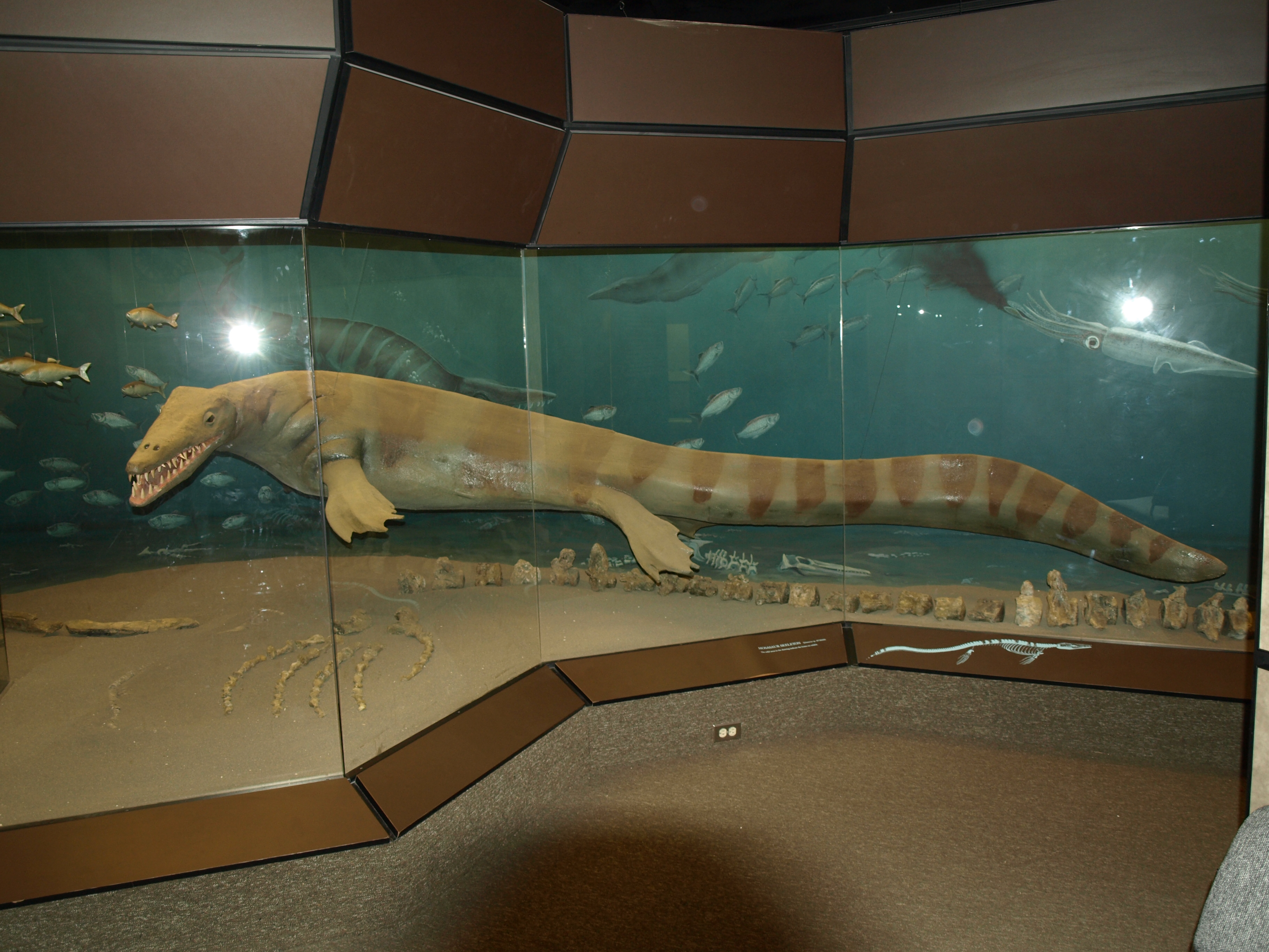 Canadian Fossil Discovery Centre Morden Manitoba Canada